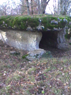 Side view of Dolmen of Gabaudet n°1 in Issendolus (Lot - France)